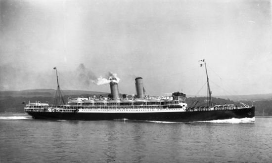 Reproduction ID: G10736 Maker: Bedford Lemere & Co Date: 1909 Materials: gelatine dry plate